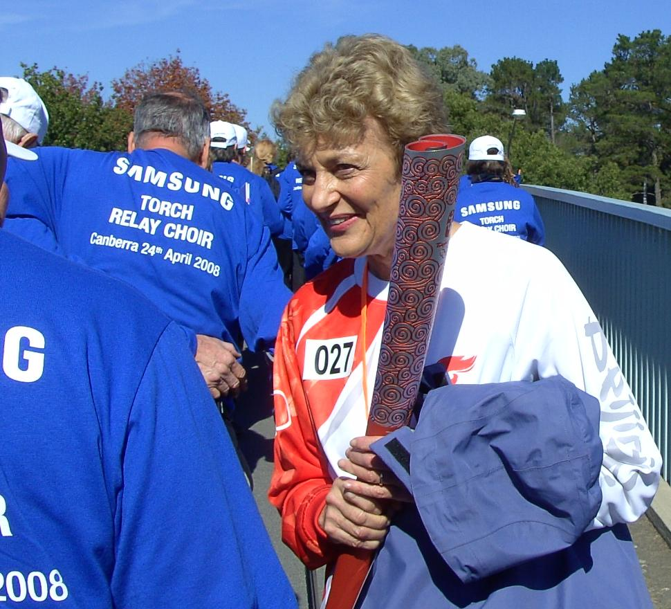 Professor Fiona Stanley, participating as a runner in the Australian leg of the en:2008 Summer Olympics torch relay, in Canberra, Australian Capital territory. Stanley was Australian of the Year in 2003. She is an epidemiologist noted for her work in public health, particularly for children.